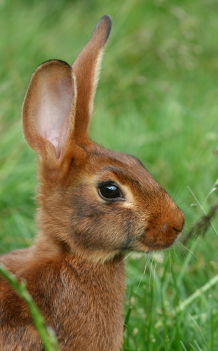 Belgian hare, 12 weeks old.